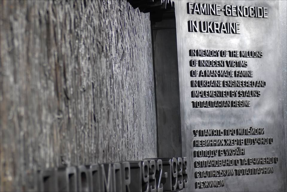 Maryna Poroshenko took part in the opening of the Memorial to Victims of Holodomor in Ukraine in 1932-1933 in Washington